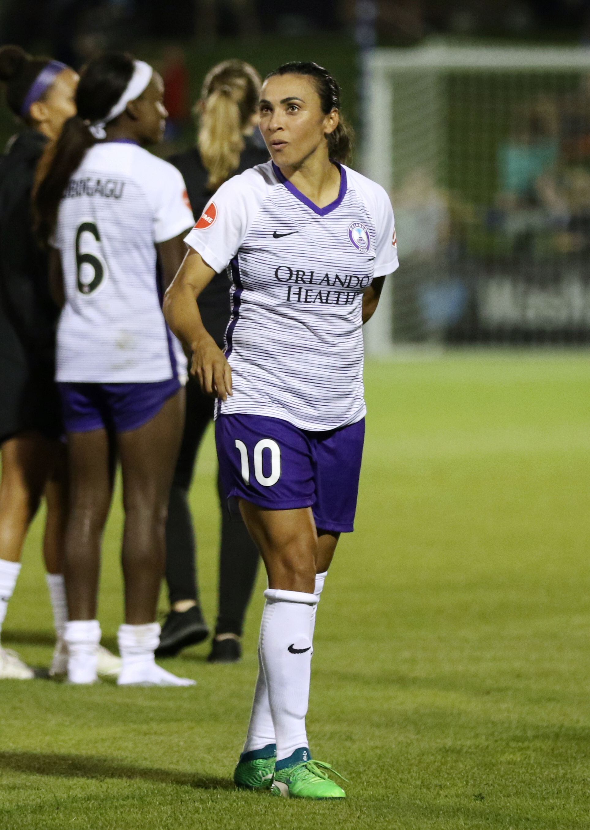 Washington Spirit vs Orlando Pride, 23 June 2018, Maryland SoccerPlex, Boyds, MD